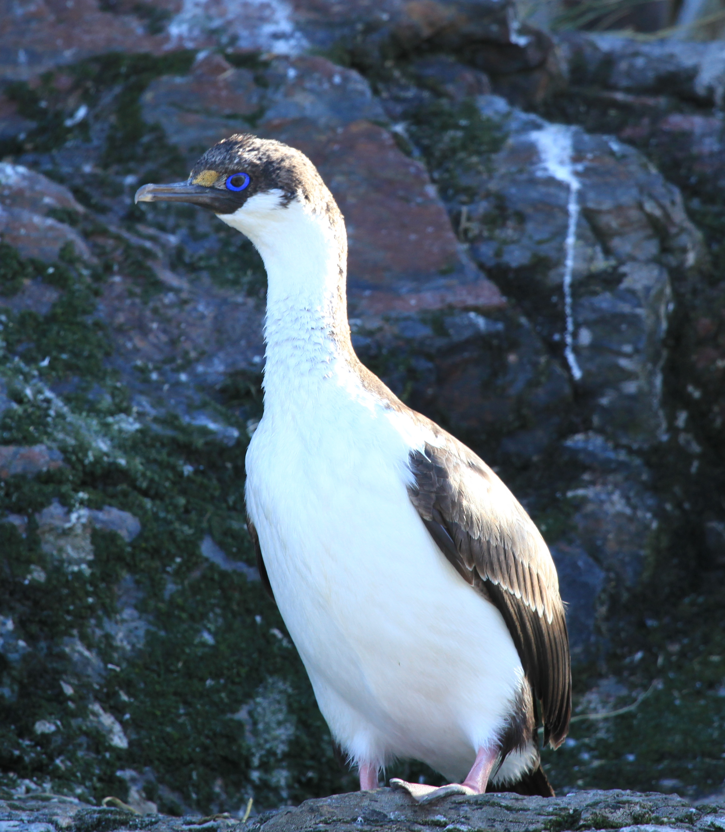 A South Georgia Shag Leucocarbo georgianus (syn. Phalacrocorax (atriceps) georgianus) in Cooper Bay, South Georgia, British Overseas Territories, UK.